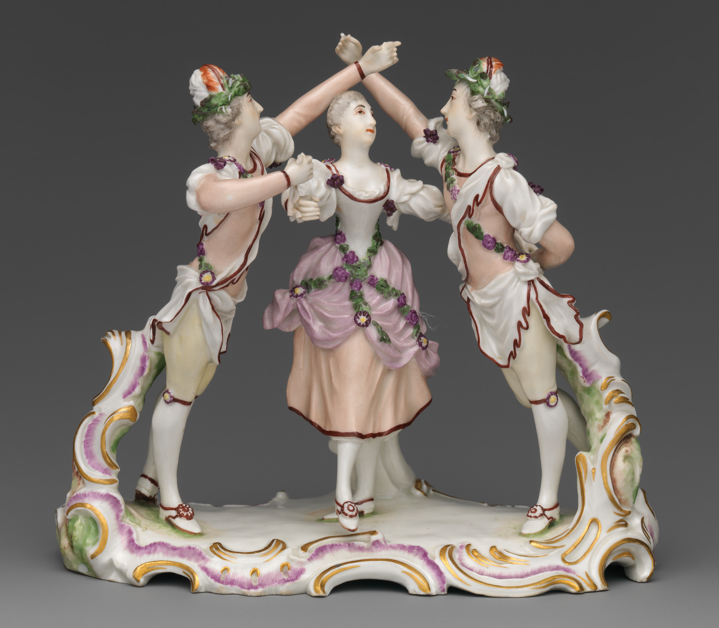 German, Ludwigsburg; Group; Ceramics-Porcelain